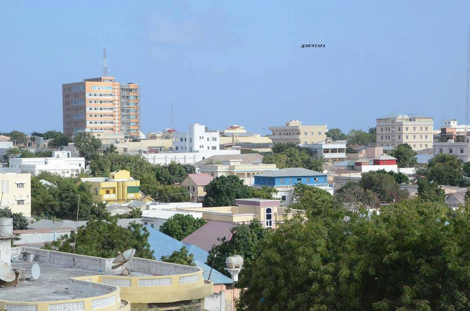 Banaadir Mogadishu